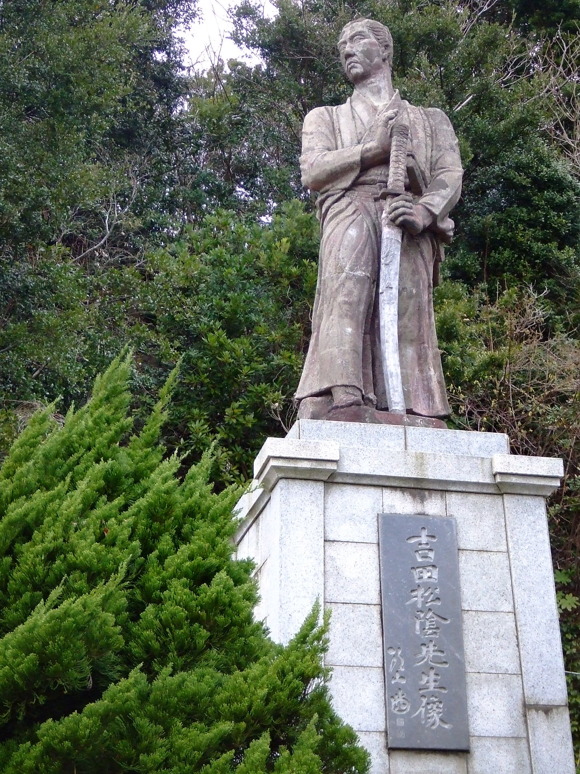 This is a statue of Shoin Yoshida in Shimoda, Shizuoka Prefecture, Japan. I took this photo with a digital camera on 24th February 2007.